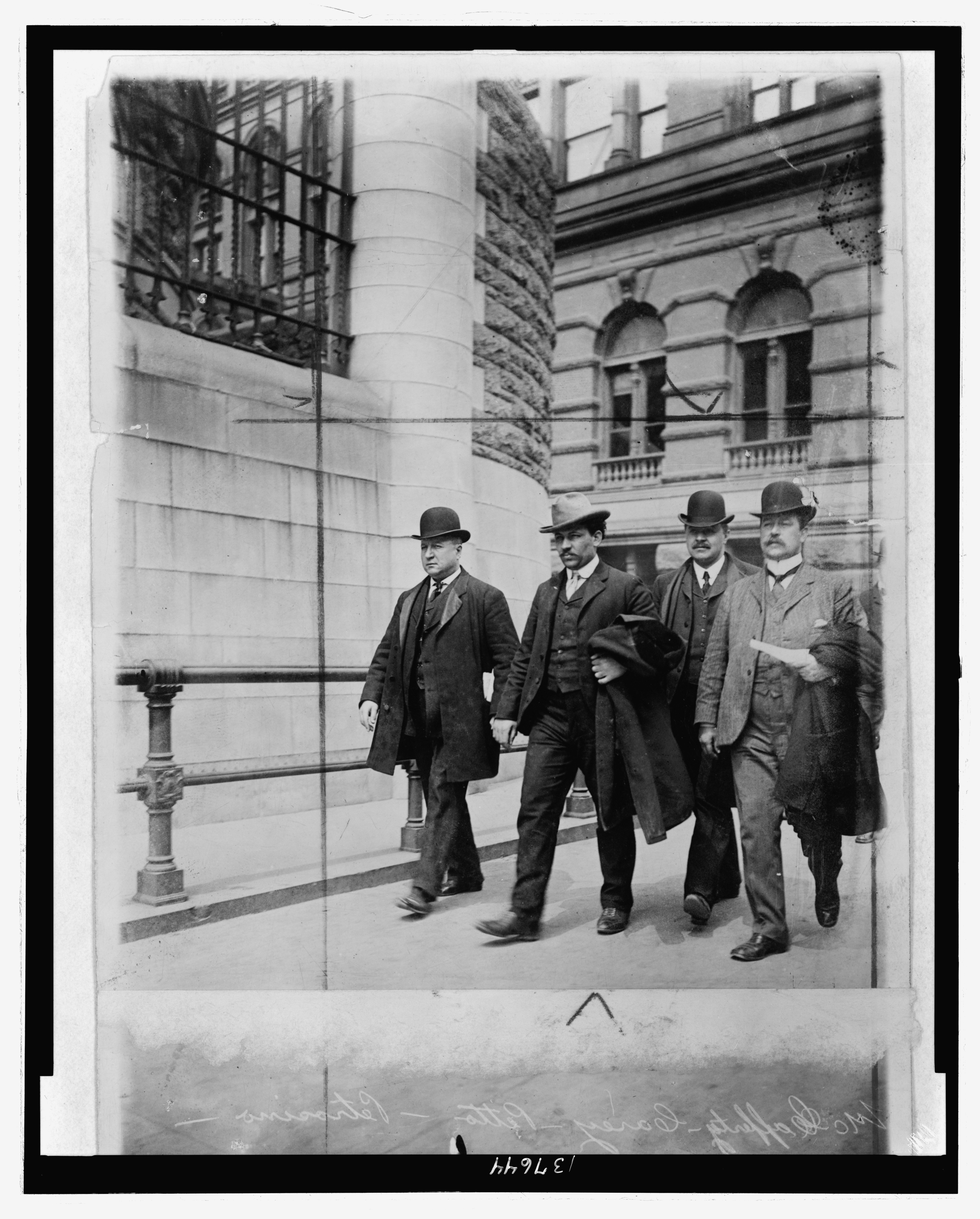 Title: Detective Lt. Joseph Petrosiino( left) , Inspector Carey and Inspector McCafferty escorting Mafia hitman Petto the Ox (Tomasso Petto, second from left) Abstract/medium: 1 photographic print.